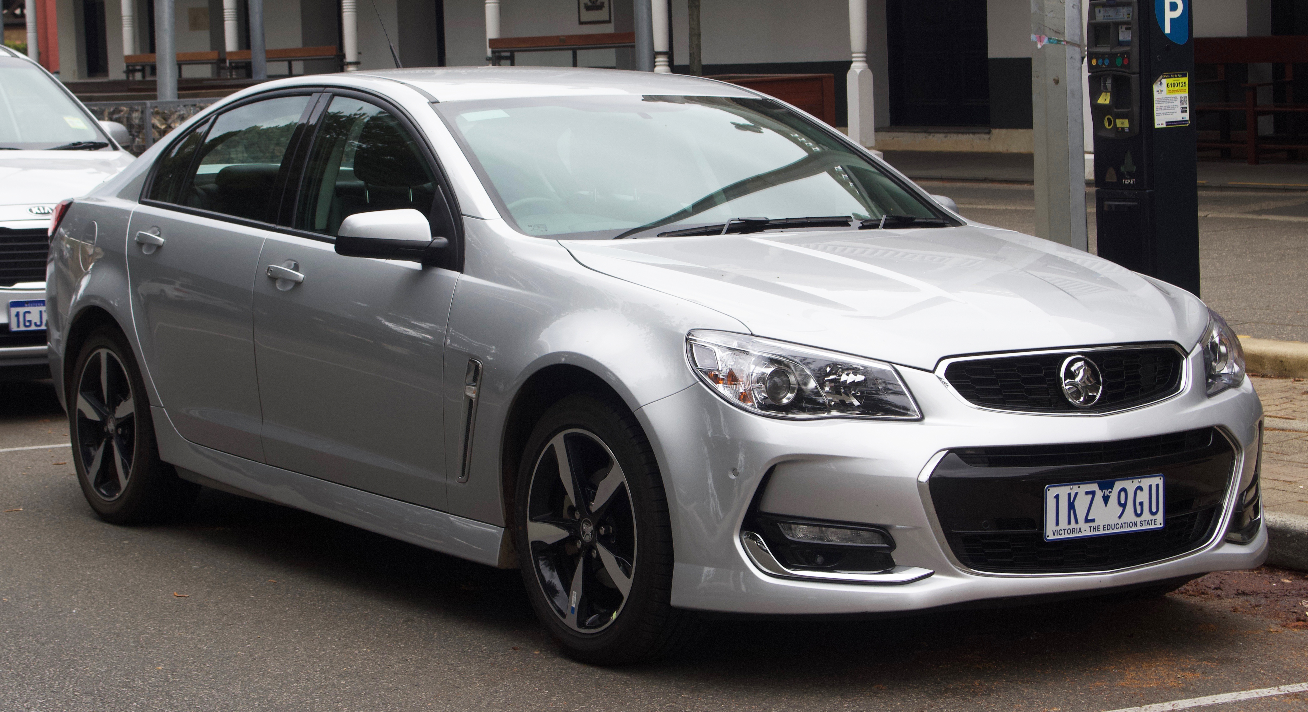 2017 Holden Commodore (VF II MY17) SV6 sedan. Photographed in Fremantle, Western Australia, Australia.